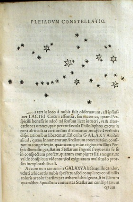 Image of a page from Sidereus Nuncius showing Galileo's drawings of the stars in the Pleiades star cluster. Image courtesy of the History of Science Collections, University of Oklahoma Libraries.